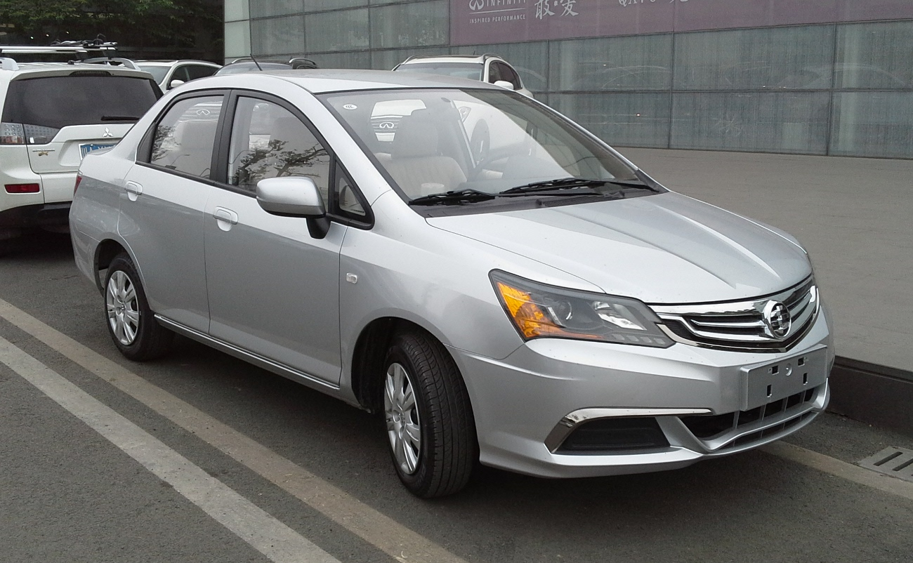 Everus S1 facelift photographed in Chengdu, Sichuan province, China.